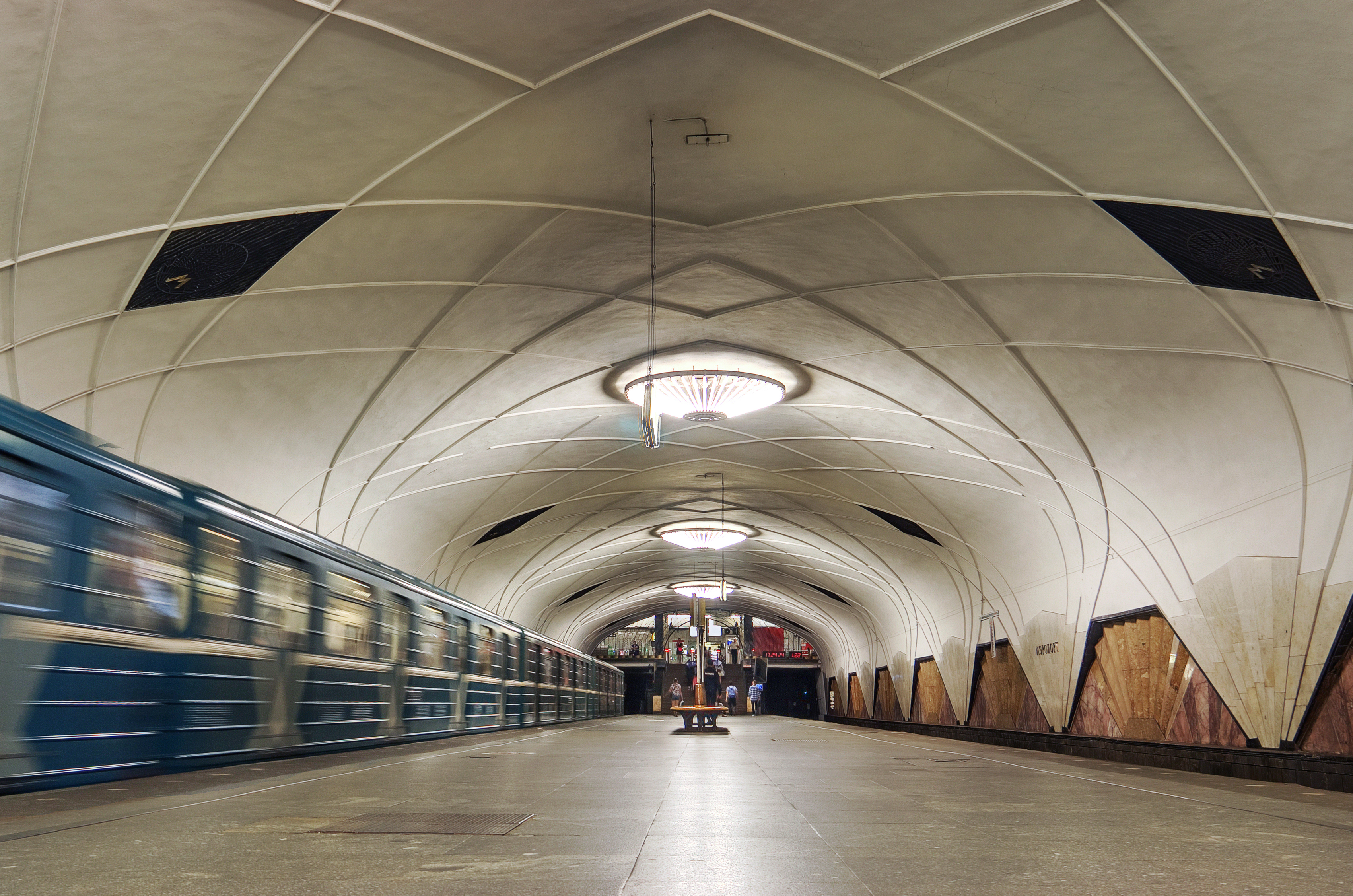 Moscow metro - Aeroport station